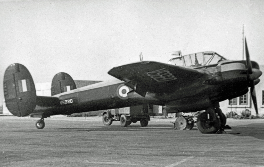 Bristol 164 Brigand MET3 VS820 at Malta Luqa in 1949